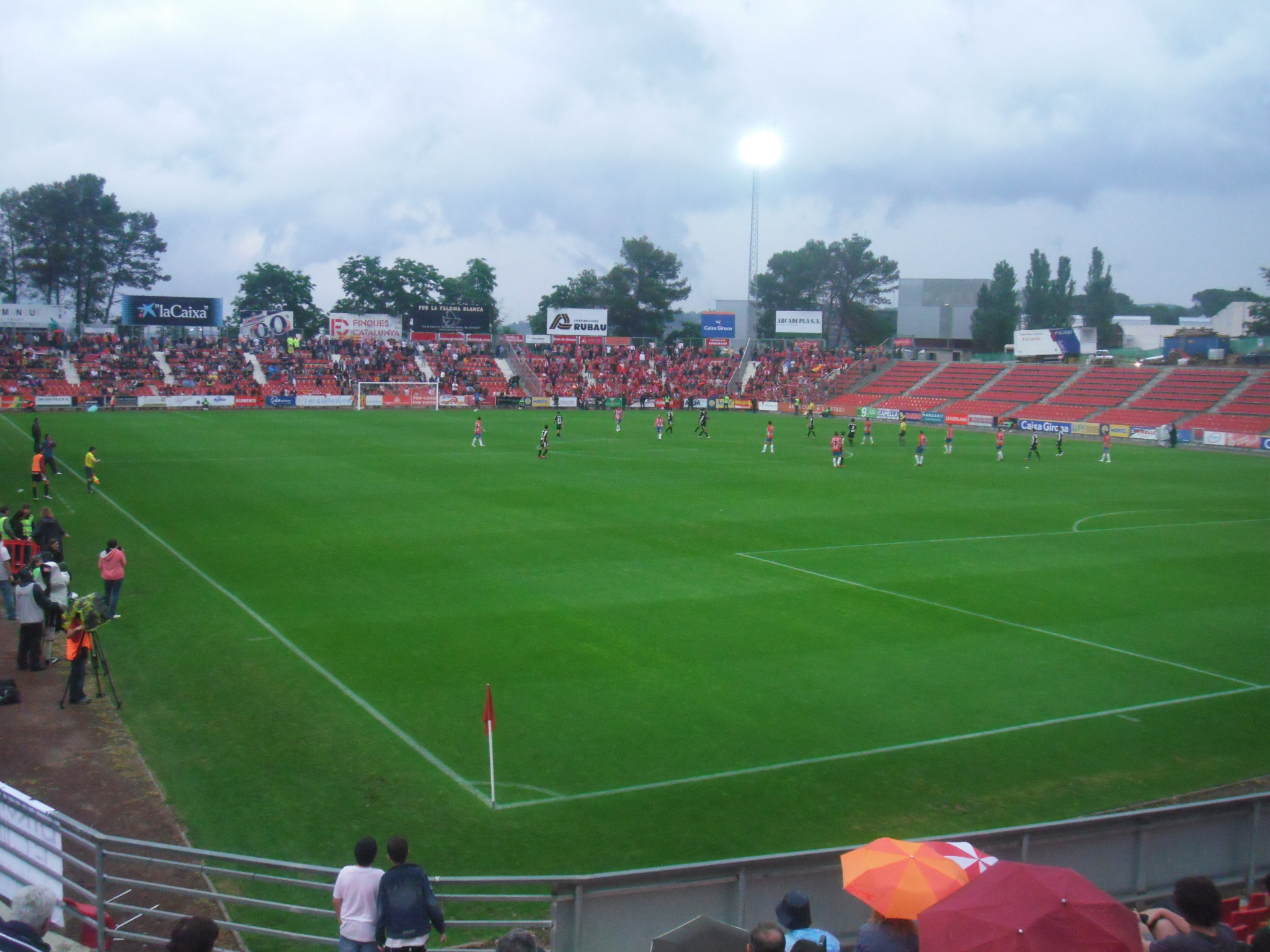 Montilivi Stadium, Girona